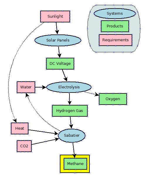 This diagram shows a method for producing methane sustainably. See: electrolysis, sabatier reaction